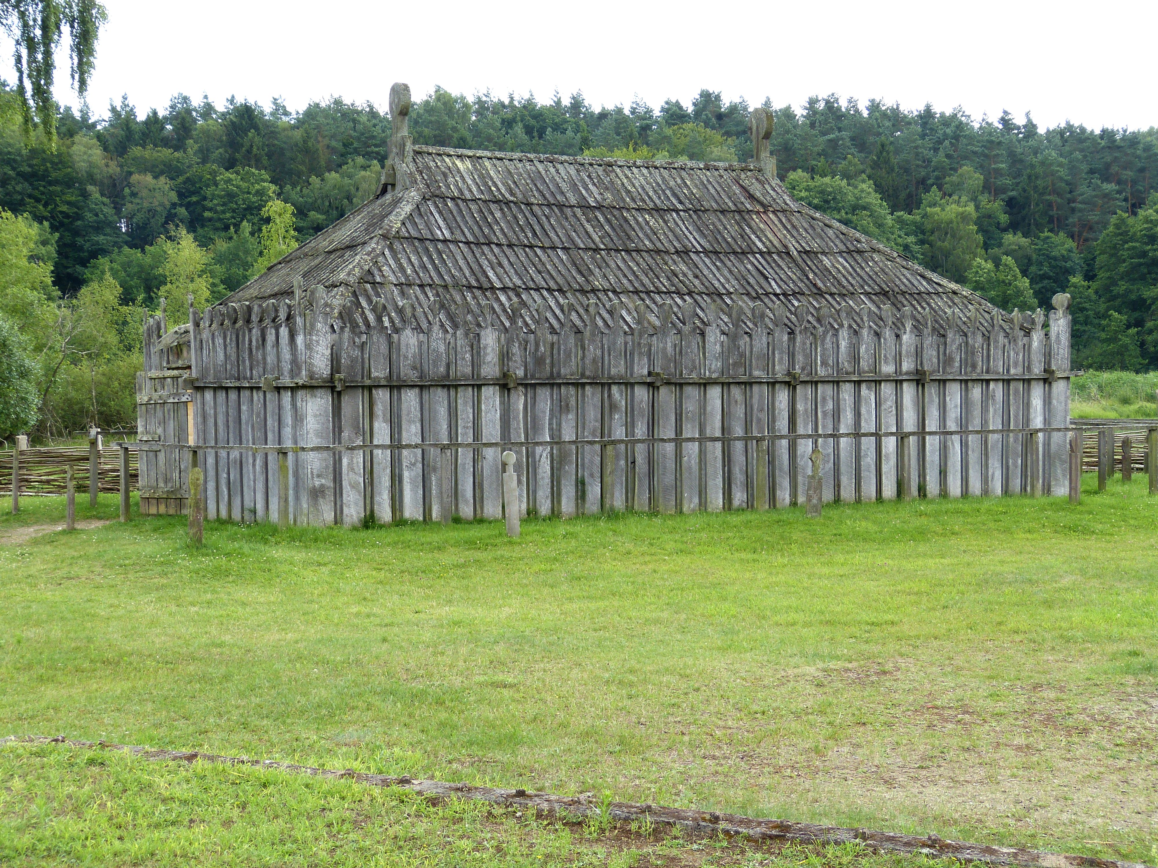 Groß Raden ( Mecklenburg ). Reconstruction of a Slavic settlement: Temple ( 10th century )